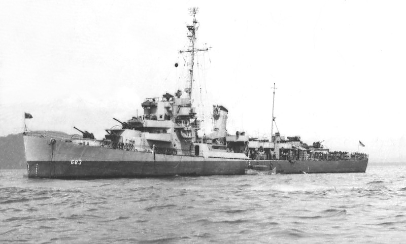 The U.S. Navy destroyer escort USS Henry R. Kenyon (DE-683) at anchor, circa in 1944.